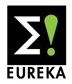 Logo for EUREKA page.